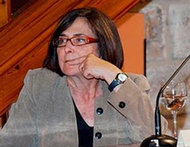 Dolors Lamarca at a conference